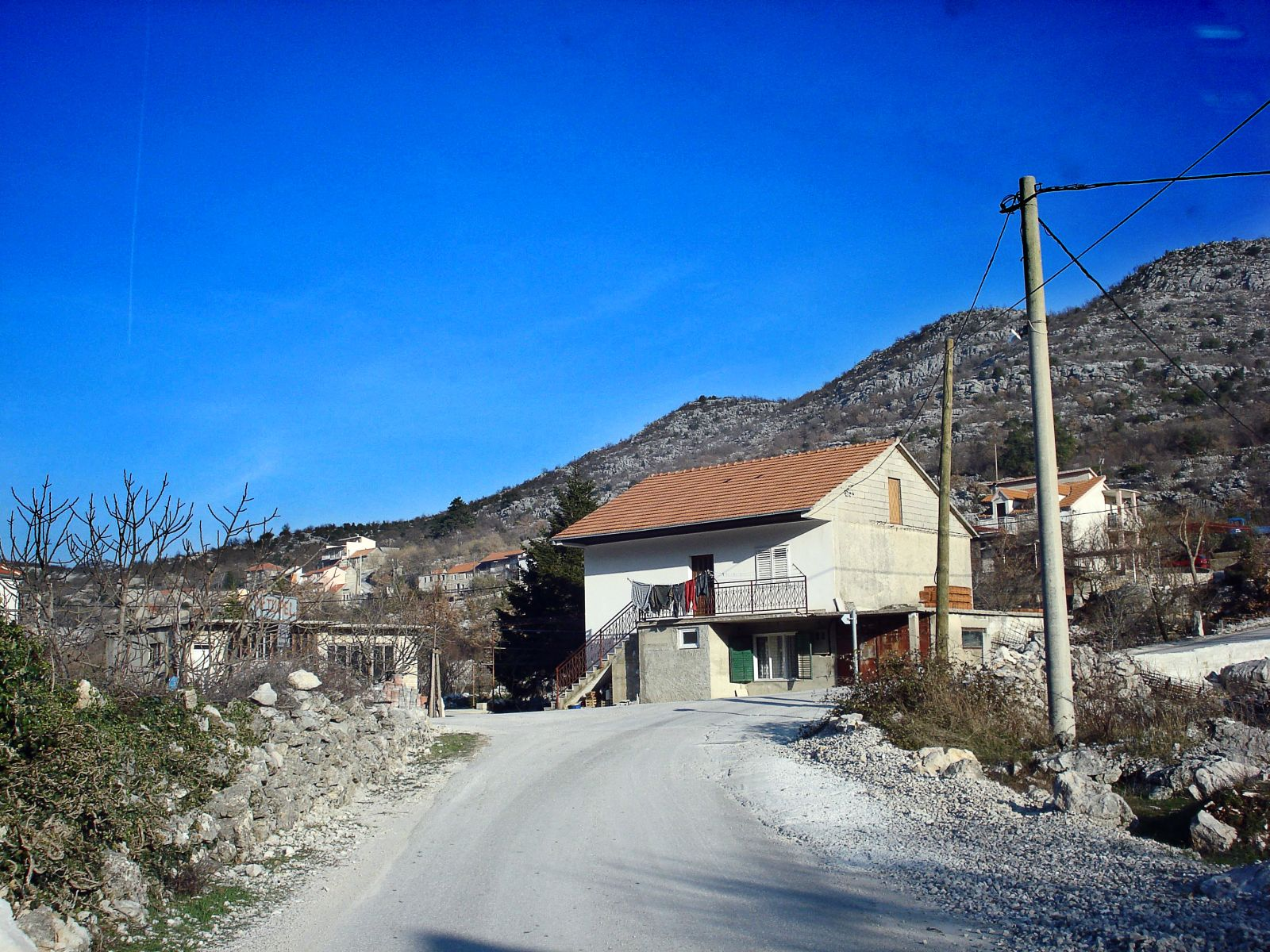 Village Rastovac near Zagvozd in Croatia.